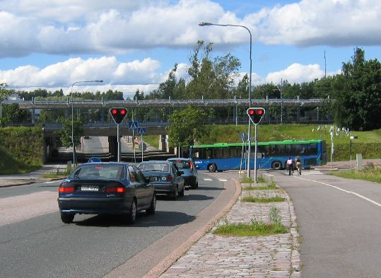 Jokeri-line, bus number 550, Helsinki, Oulunkylä, 1 August 2007. The traffic lights are programmed to give priority to busses.